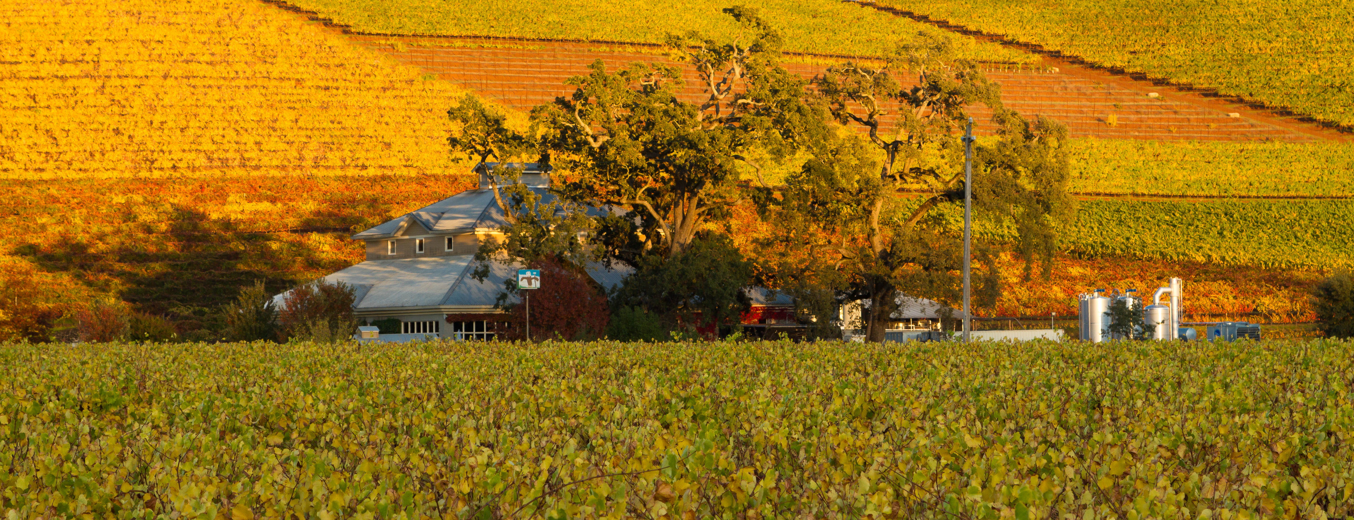 Kunde Family Estate Winery, Sonoma Valley, California, fall 2012.